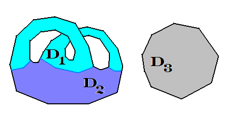 three disks that decompose a torus